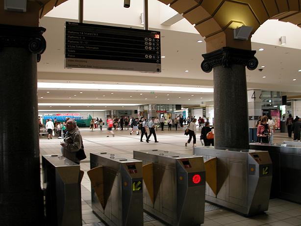 Main concourse of Flinders Street Station